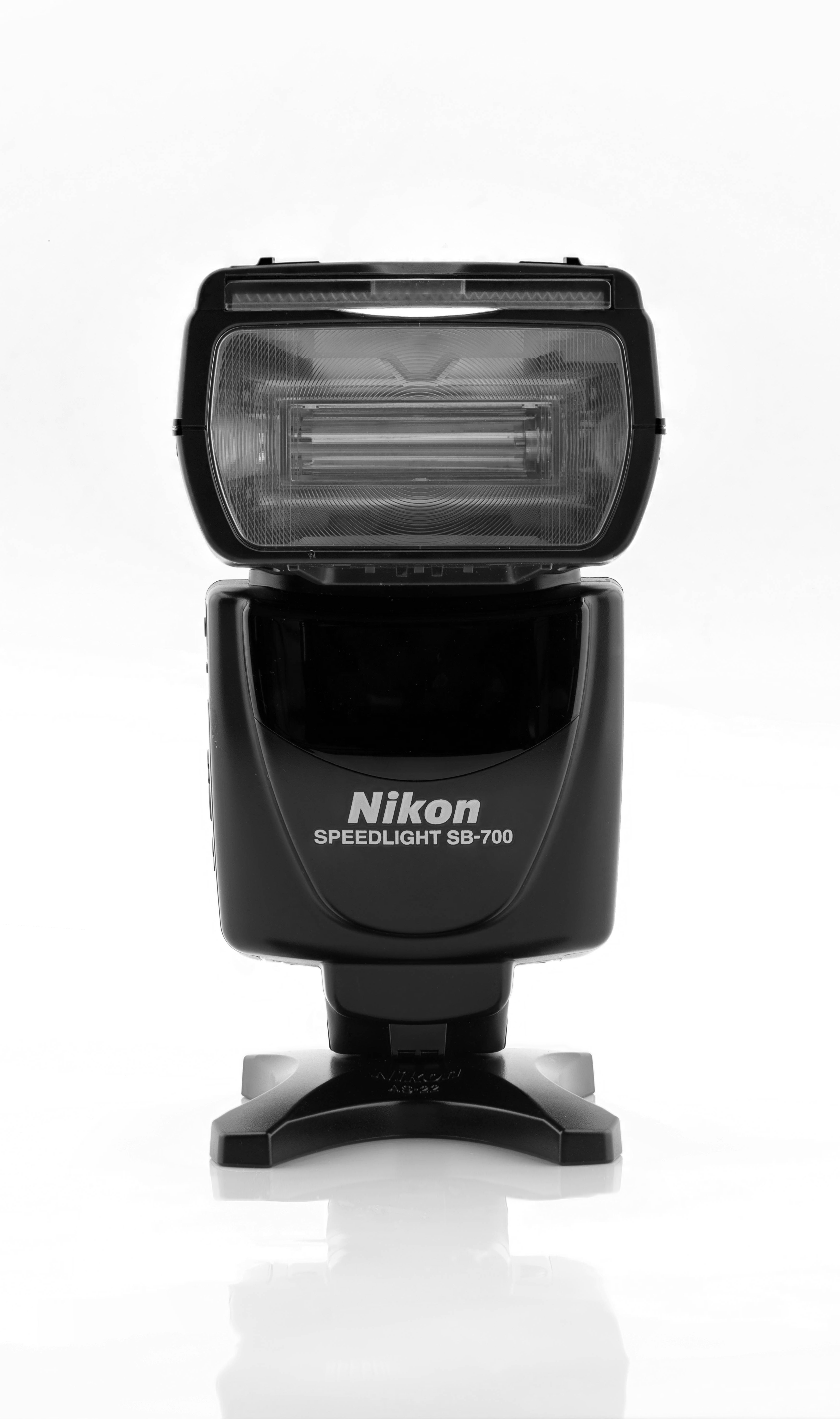 Flash Nikon Speed Light SB-700 front view